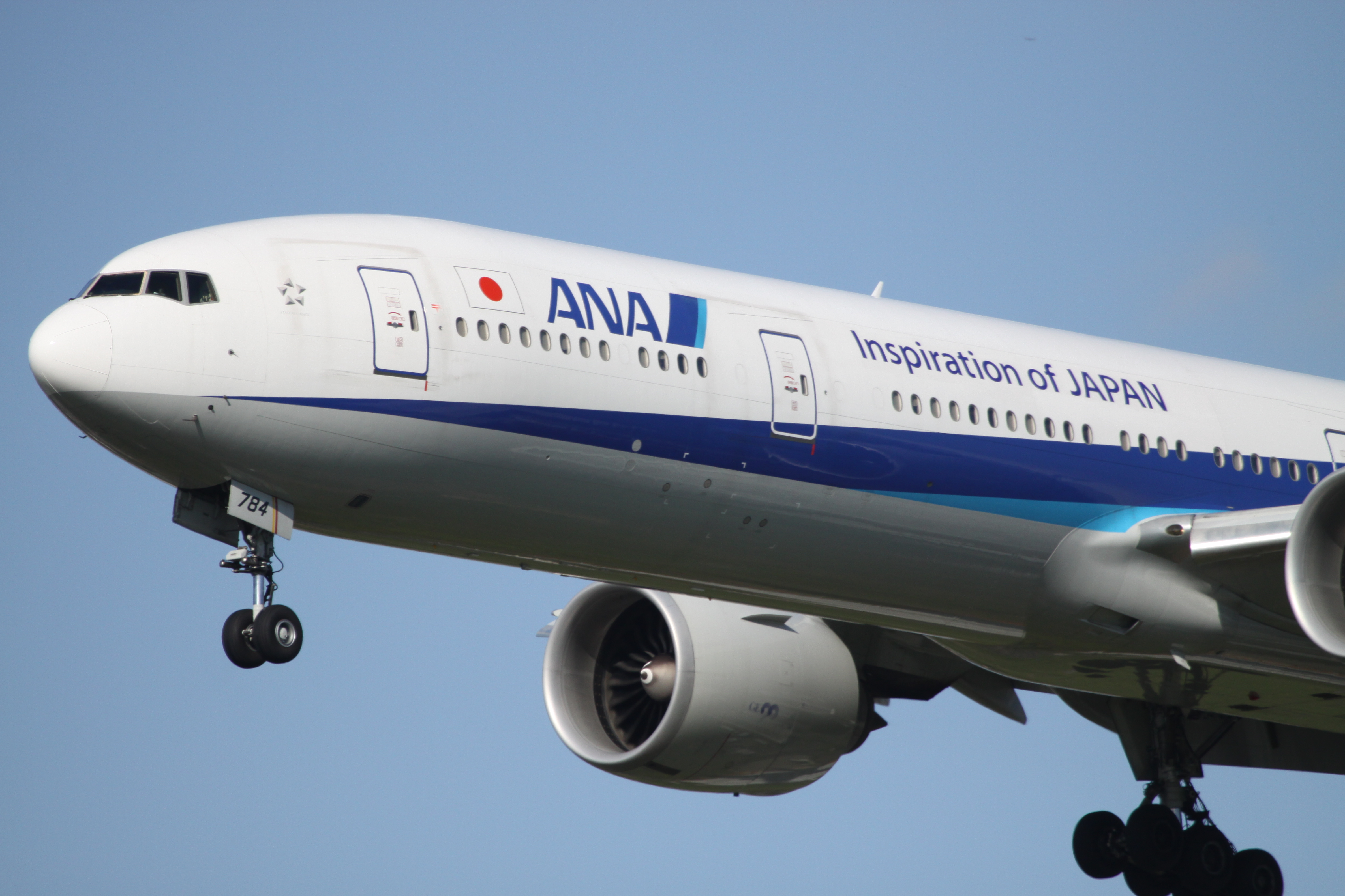 At London Heathrow